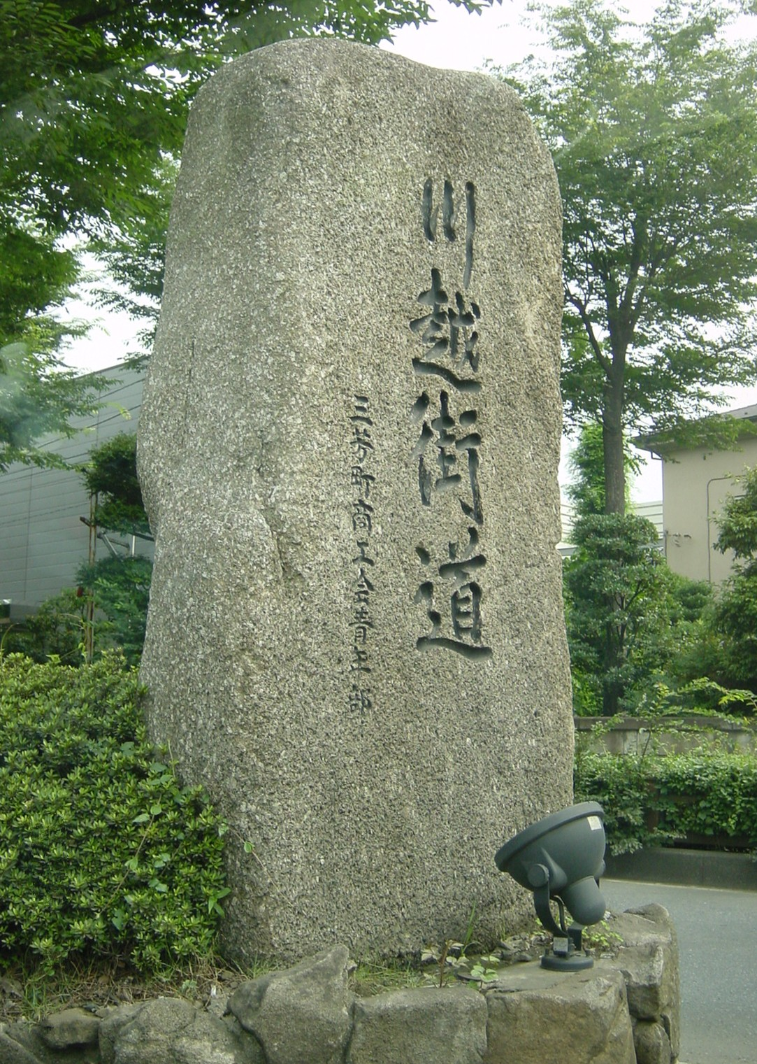 Sign of Kawagoe Kaidou Way, Niiza, Saitama, Japan.